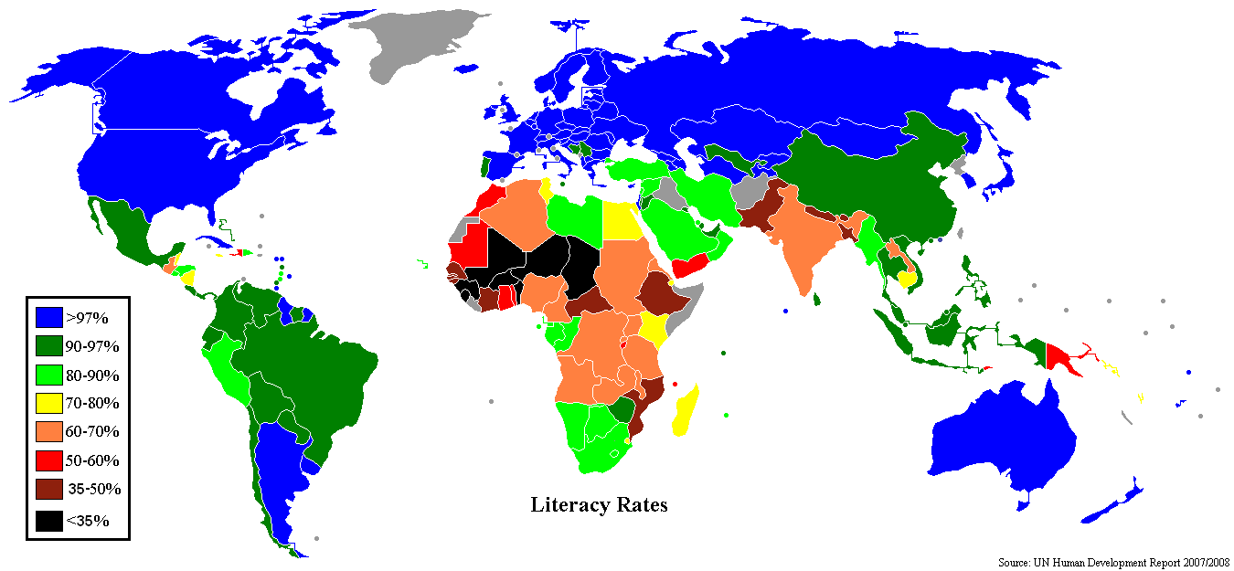 World map of literacy, UNHD 2007/2008 report. Grey = no data.